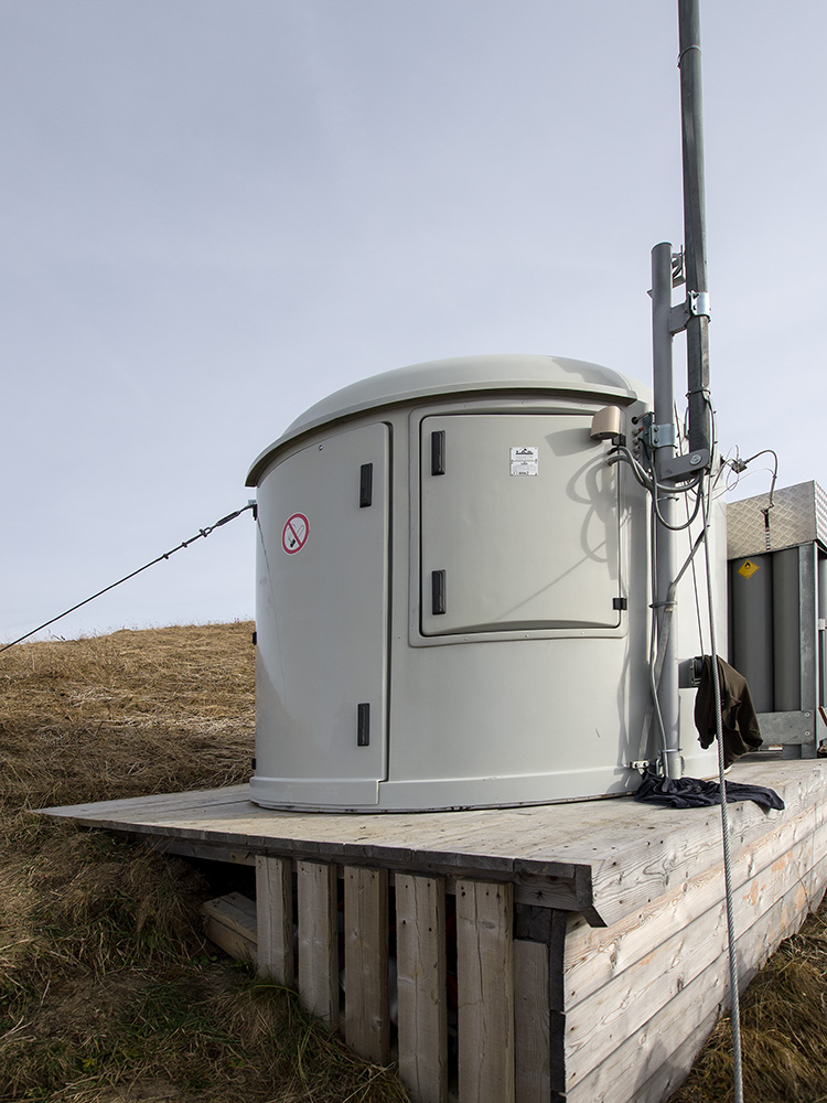 Remote controlled installation for triggering avalanches by detonating a fuel-air explosive above the snow pack in an avalanche starting zone